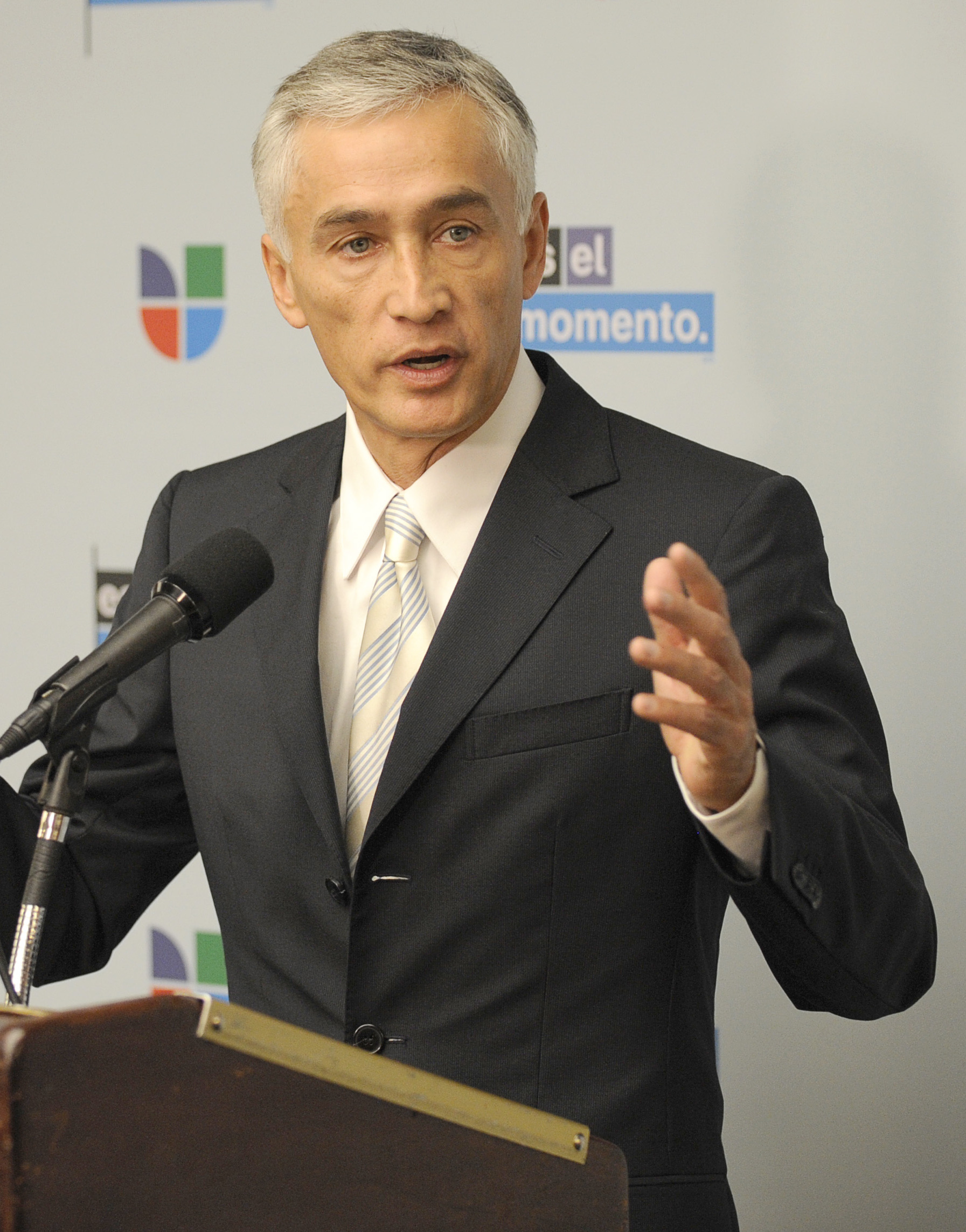 Univision news anchor Jorge Ramos speaks at an event at the National Press Club in Washington, Tuesday, Feb. 23, 2010. NASA is working with Univision Communications Inc. to develop a partnership in support of the Spanish-language media outlet's initiative to improve high school graduation rates, prepare Hispanic students for college, and encourage them to pursue careers in science, technology, engineering and mathematics, or STEM, disciplines. Photo Credit: (NASA/Bill Ingalls)